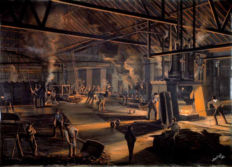 Painting of the Toronto Rolling Mills, an iron rails factory founded in 1857 by a group of businessmen led by railway magnate Sir Casimir Gzowski. At that time, it was the largest iron mill in Canada and the largest manufacturer in Toronto. The introduction of steel rails led to its closure in 1873.